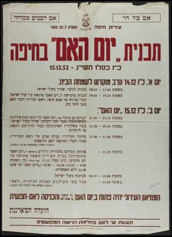 A poster for Mothers day